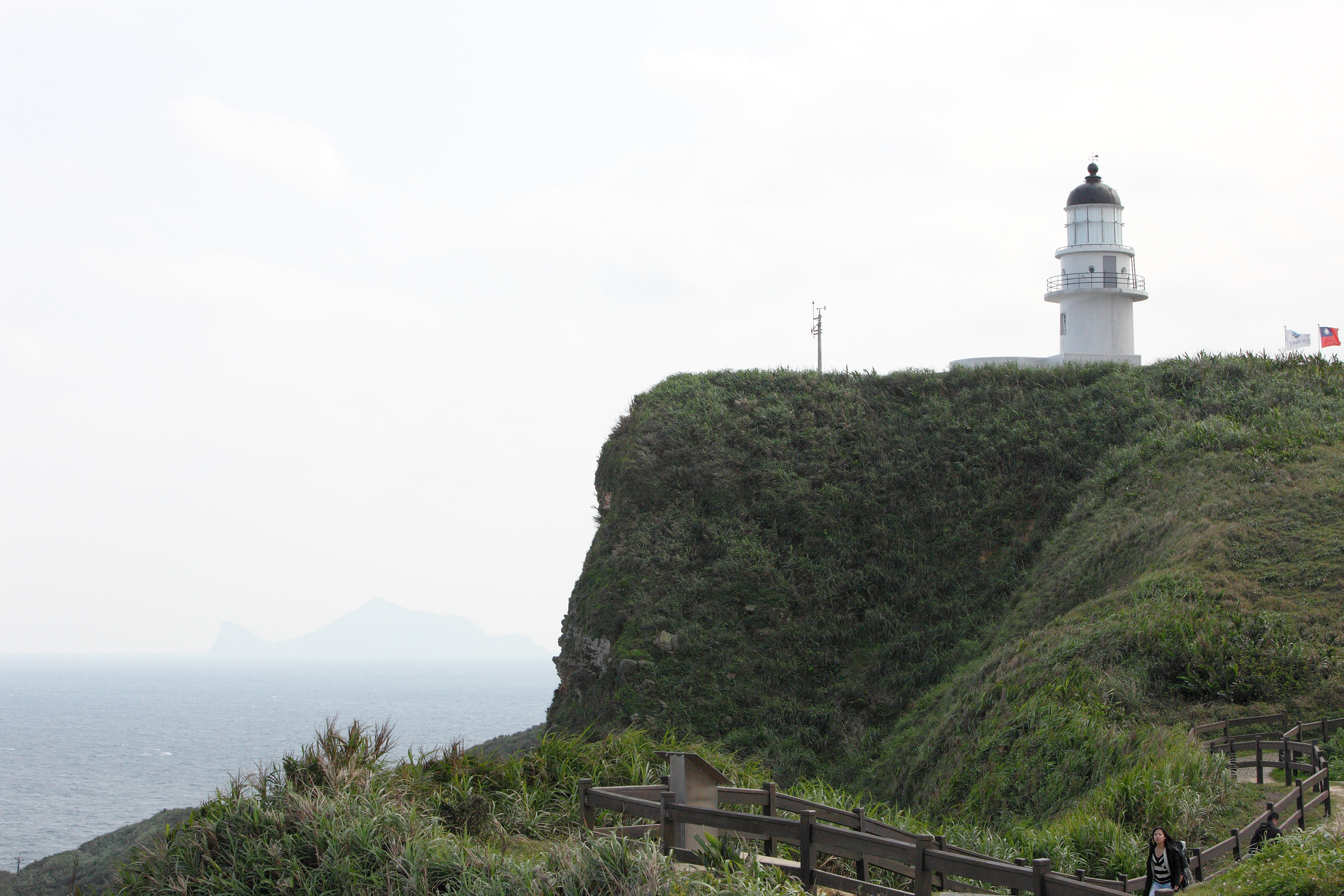 Lighthouse on rocky cliffs at Sandiaojiao with view of the Yilan coast in the hazy background Gueishan Island.